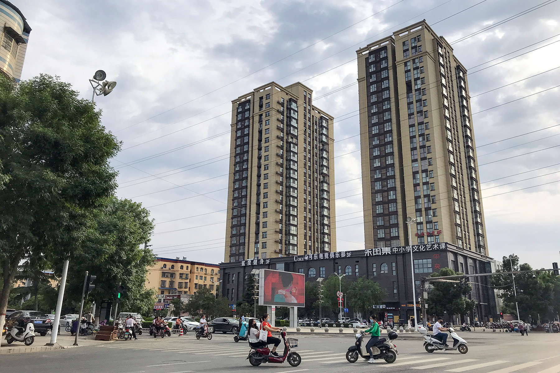 Crossing of Guangwu Rd. and Suohe Rd. in Xingyang